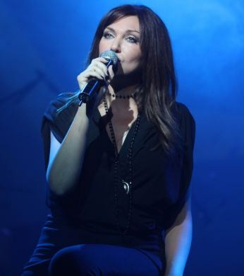 Katy Garbi live at Polis Stage Athens 13/12/2009